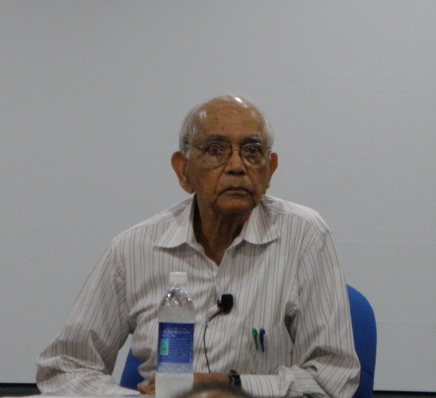 Calyampudi Radhakrishna Rao giving a talk at Indian Statistical Institute.